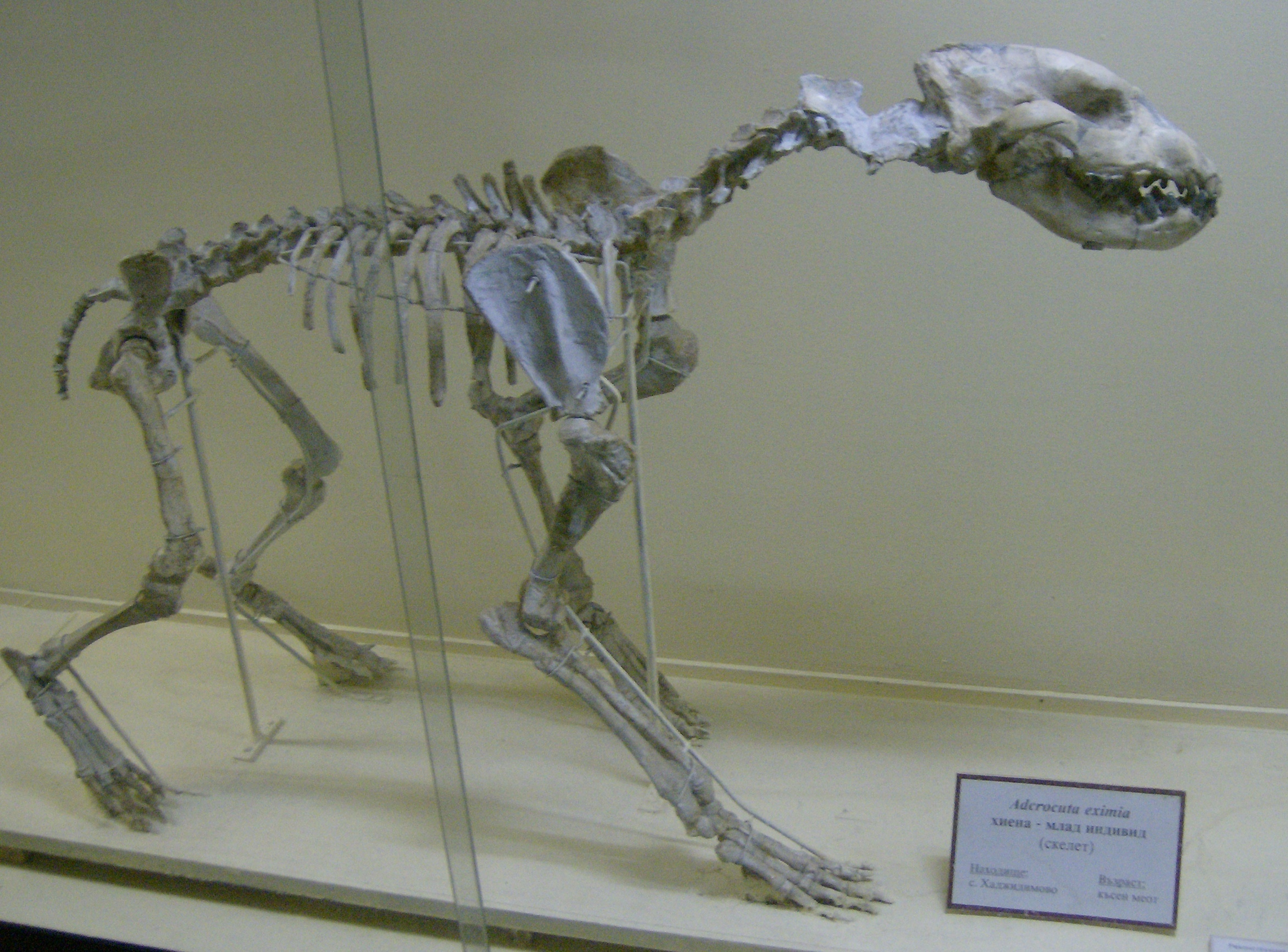 Adcrocuta eximia, Asenovgrad Paleonthological Museum, Bulgaria